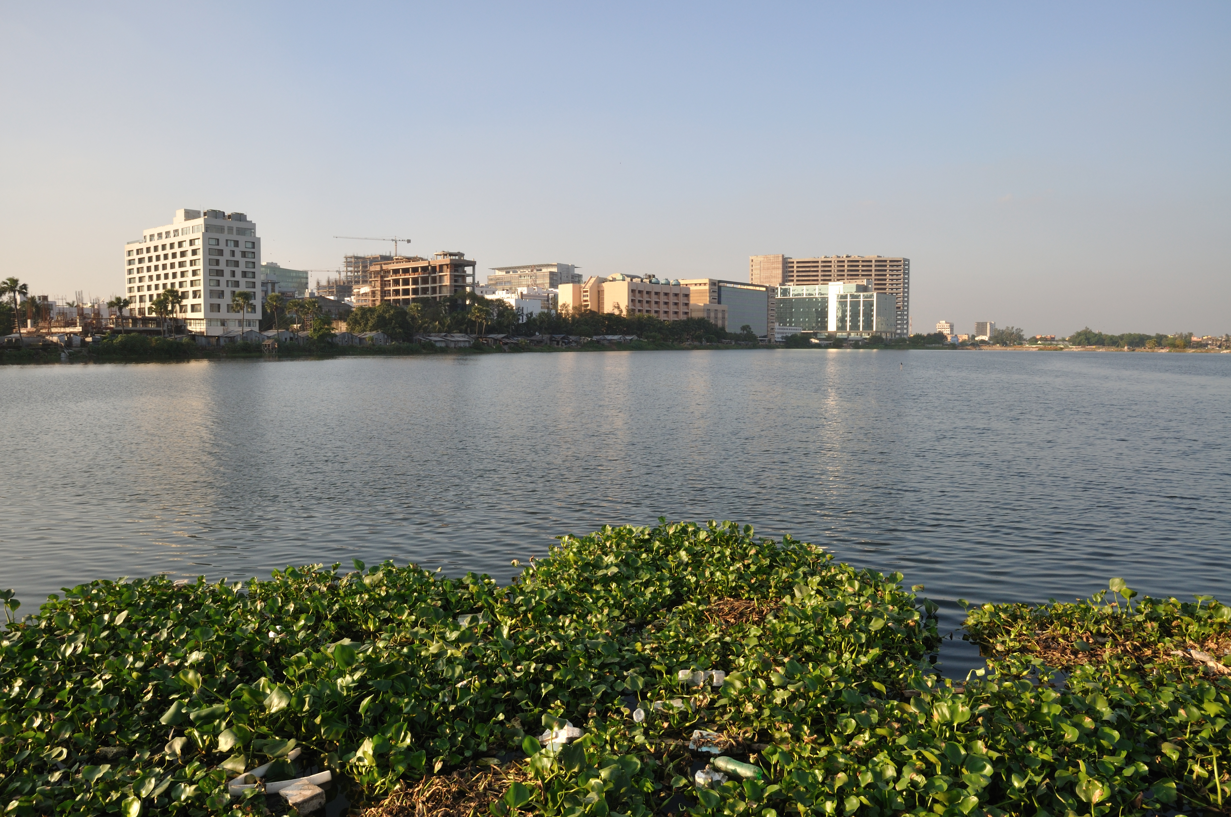 Bidhan Nagar or Salt Lake City as it is popularly called, is a planned satellite township in the Indian state of West Bengal.It is the Information Technology hubThe city was built on a reclaimed salt-water lake, which gave rise to its popular name of "Salt Lake City". The photo was taken from 1KM away from the SDF building.